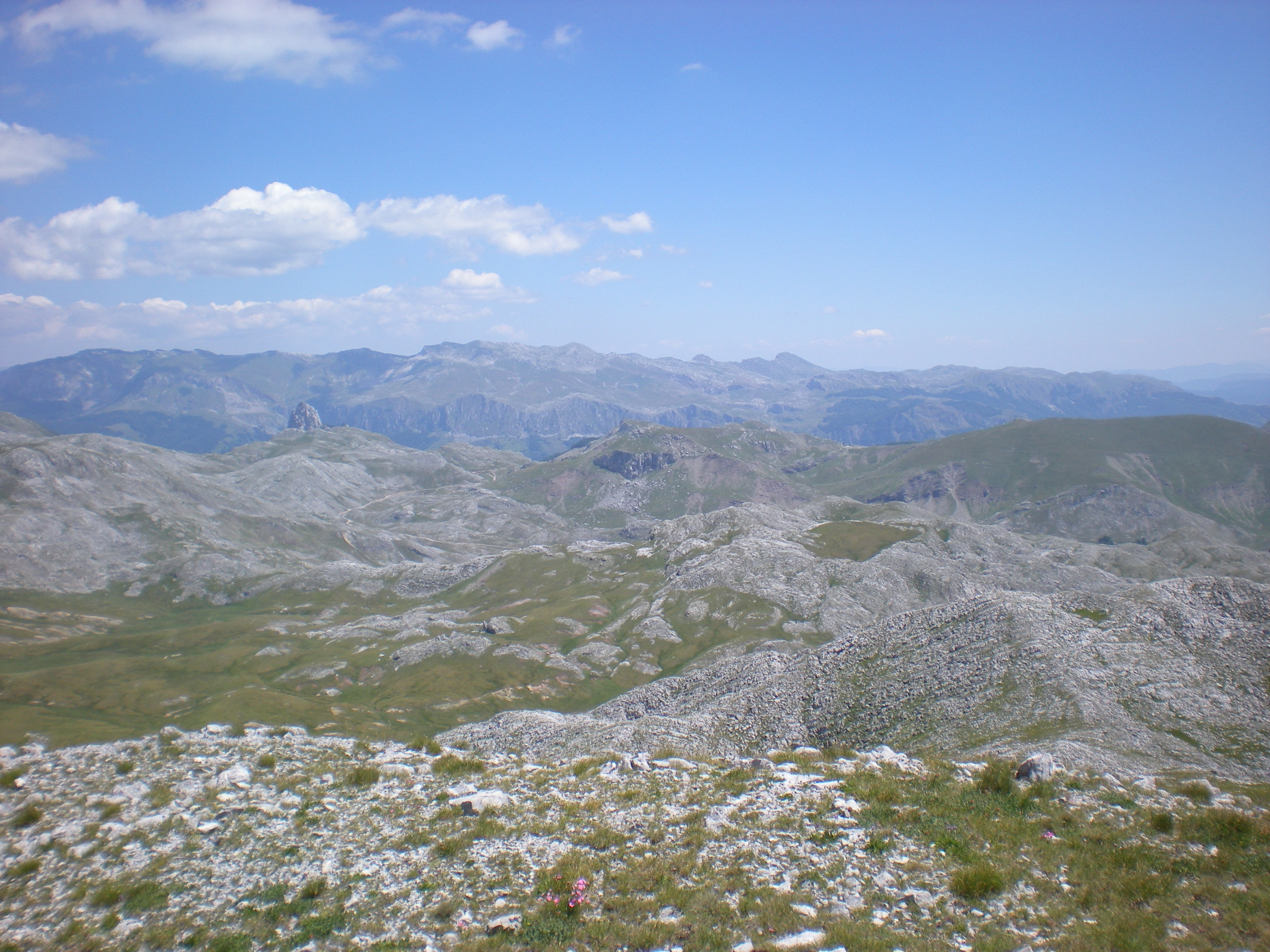 Visocica: View from Dzamija summit (1974 m.) towards the east. In the background Treskavica.